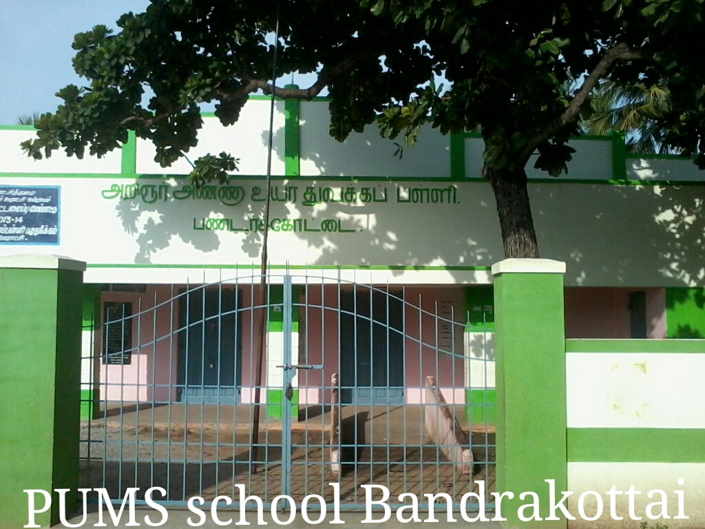 Bandrakottai is a village panjayat which is situated in panruti taluk in cuddalore district in tamil nadu in India and has pincode as607108